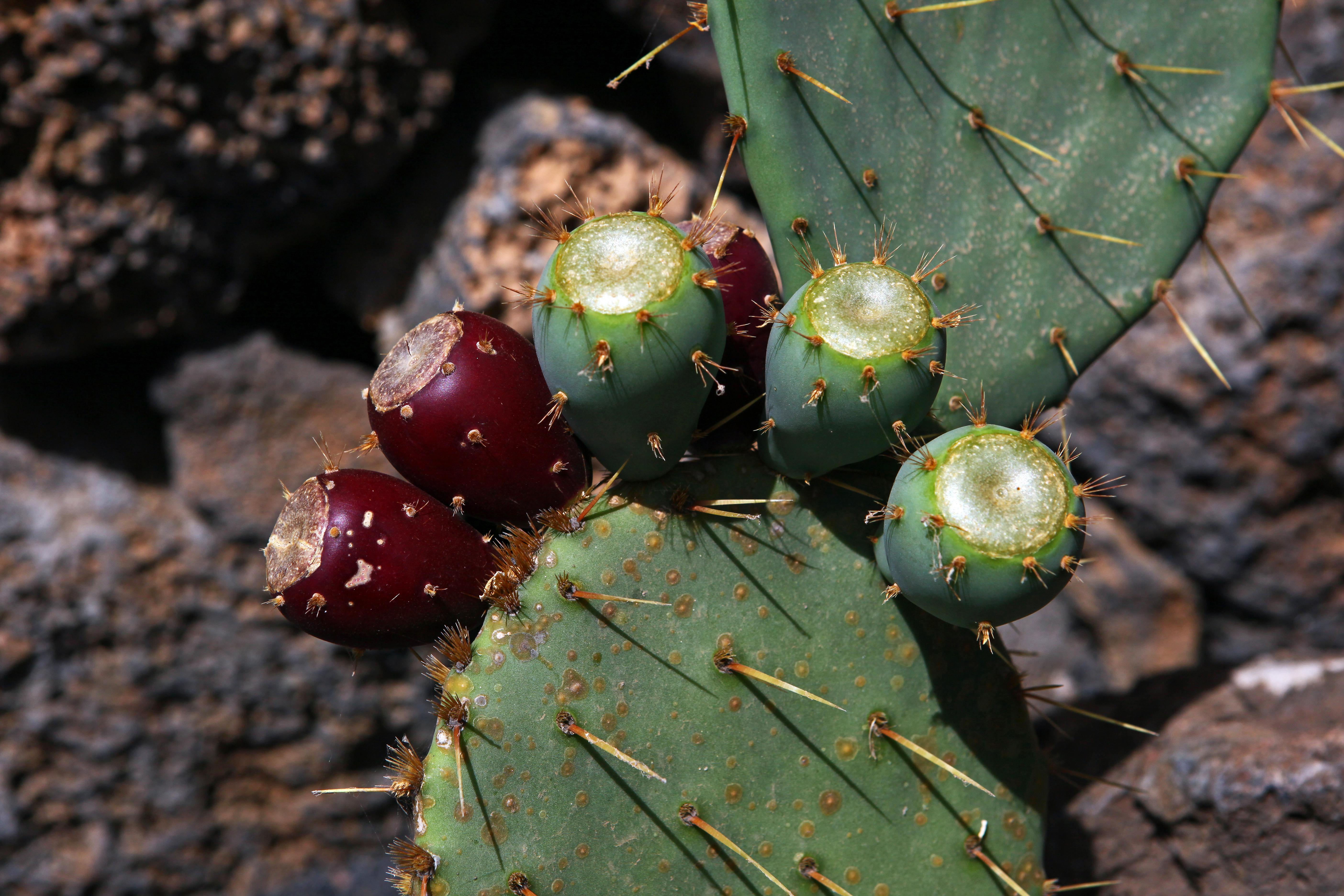 Opuntia engelmannii fruits in the garden: "Jardín de cactus" creation de Manrique, in Guatiza, Lanzarote.